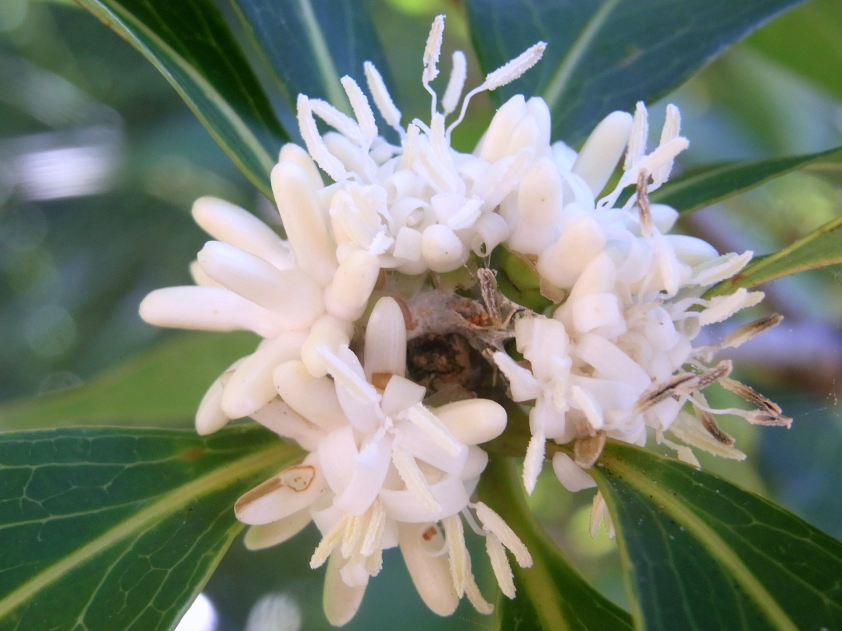 Eidothea hardeniana flower, RBG Sydney